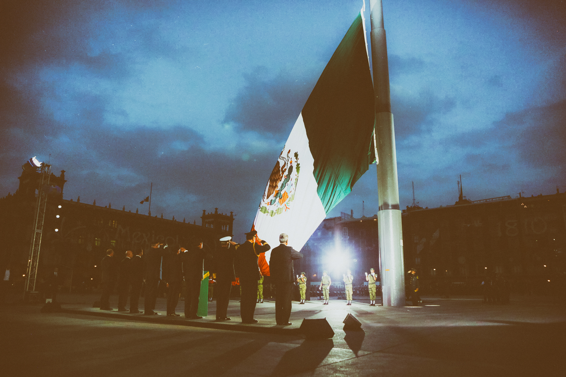 Izamiento de la Bandera Nacional en Memoria de las personas que perdieron la vida en el sismo de 1985